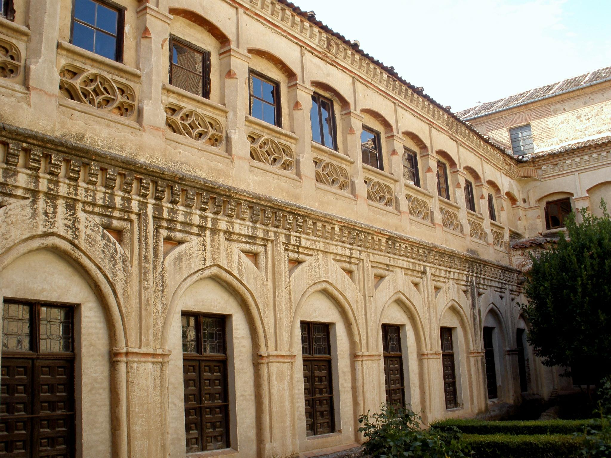 Claustro del Monasterio de San Antonio el Real, Segovia (Castilla y León, España)